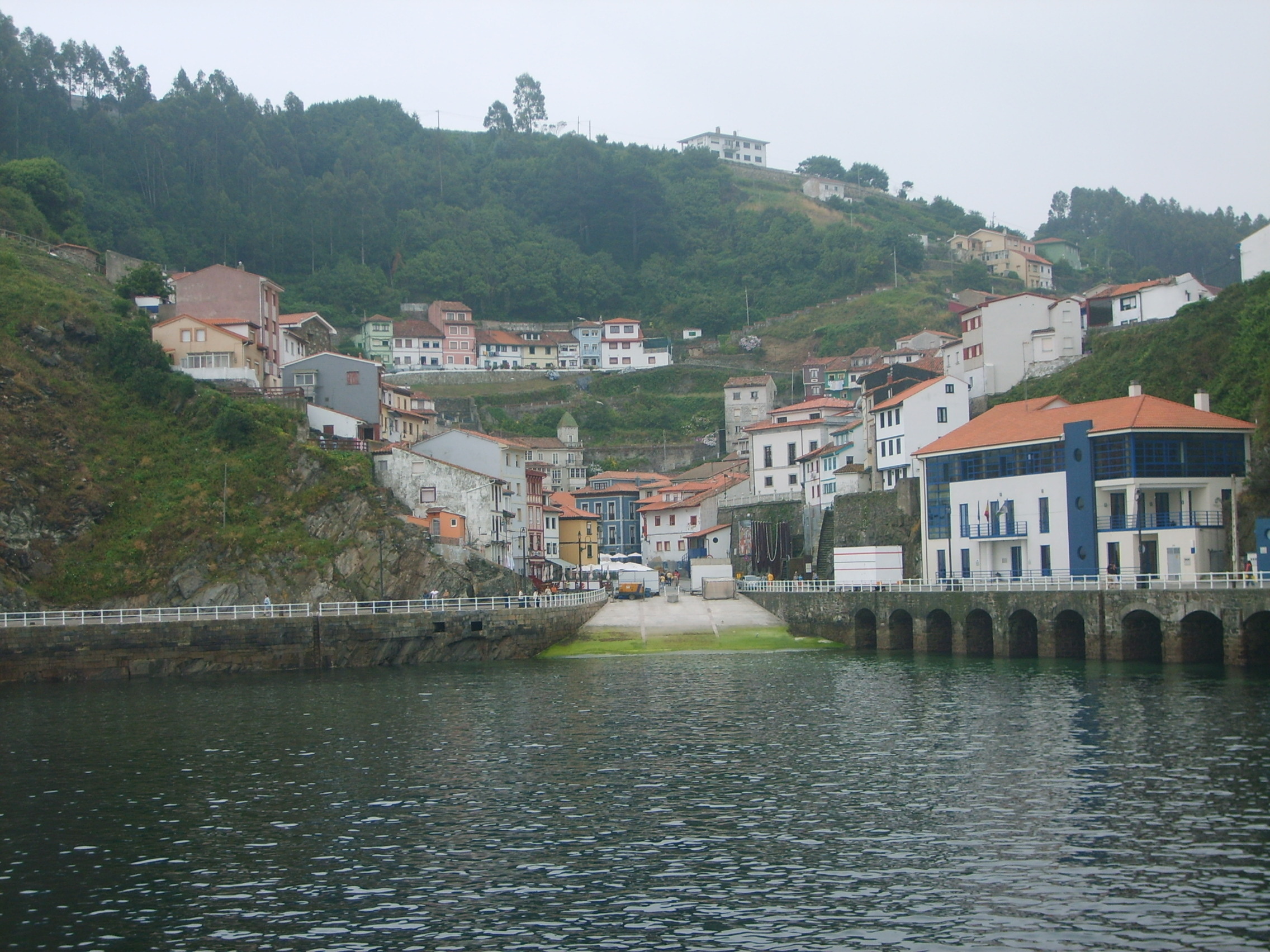 Cudillero tomado 3 de julio 2006 de user:Martin253 Cudillero taken July 3rd 2006 by user:Martin253 Cudillero gennom am 3. Juli 2006 von user:Martin253 Cudillero tatt 3. juli 2006 av user:Martin253